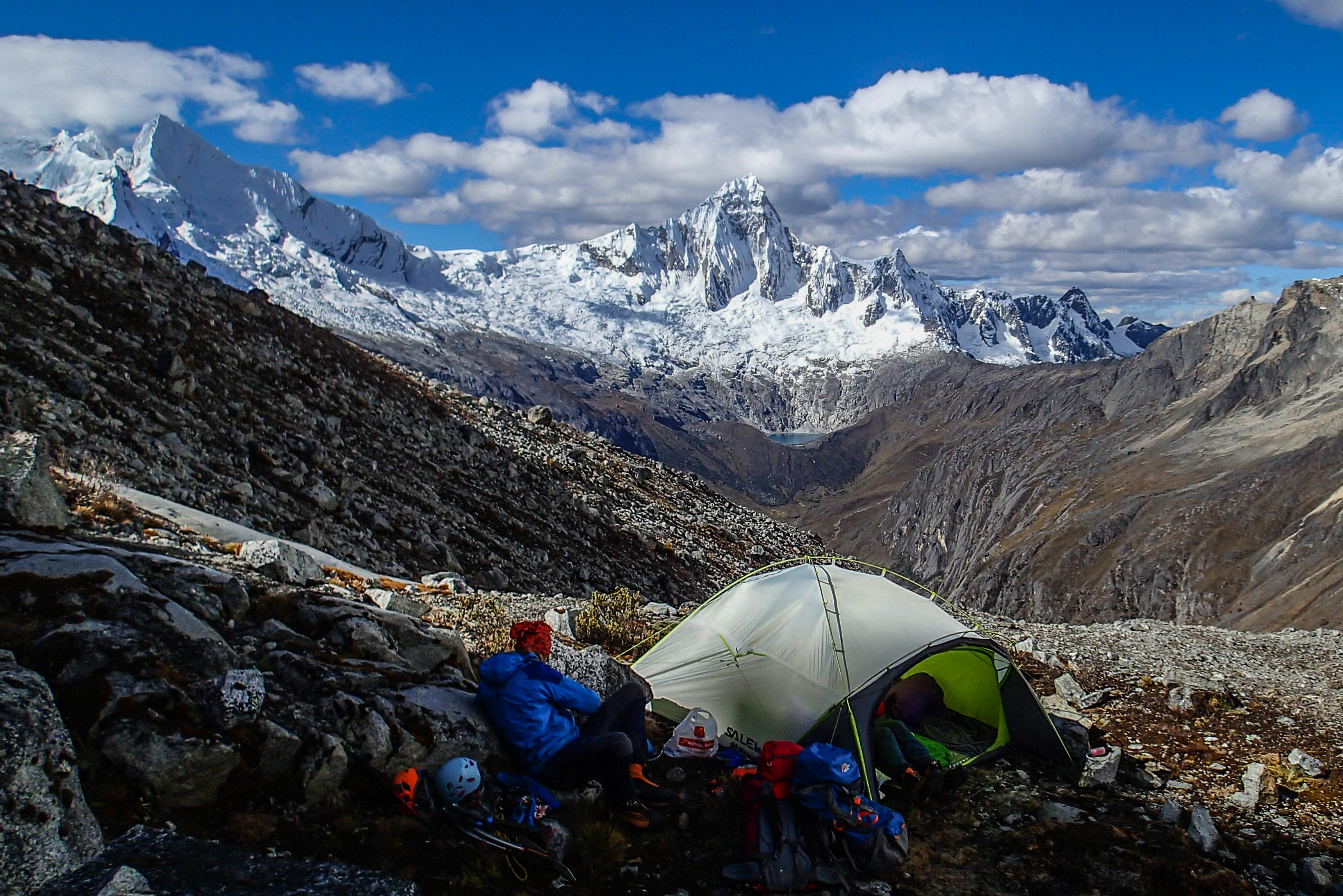 Taulliraju and Pucajircas in the background.